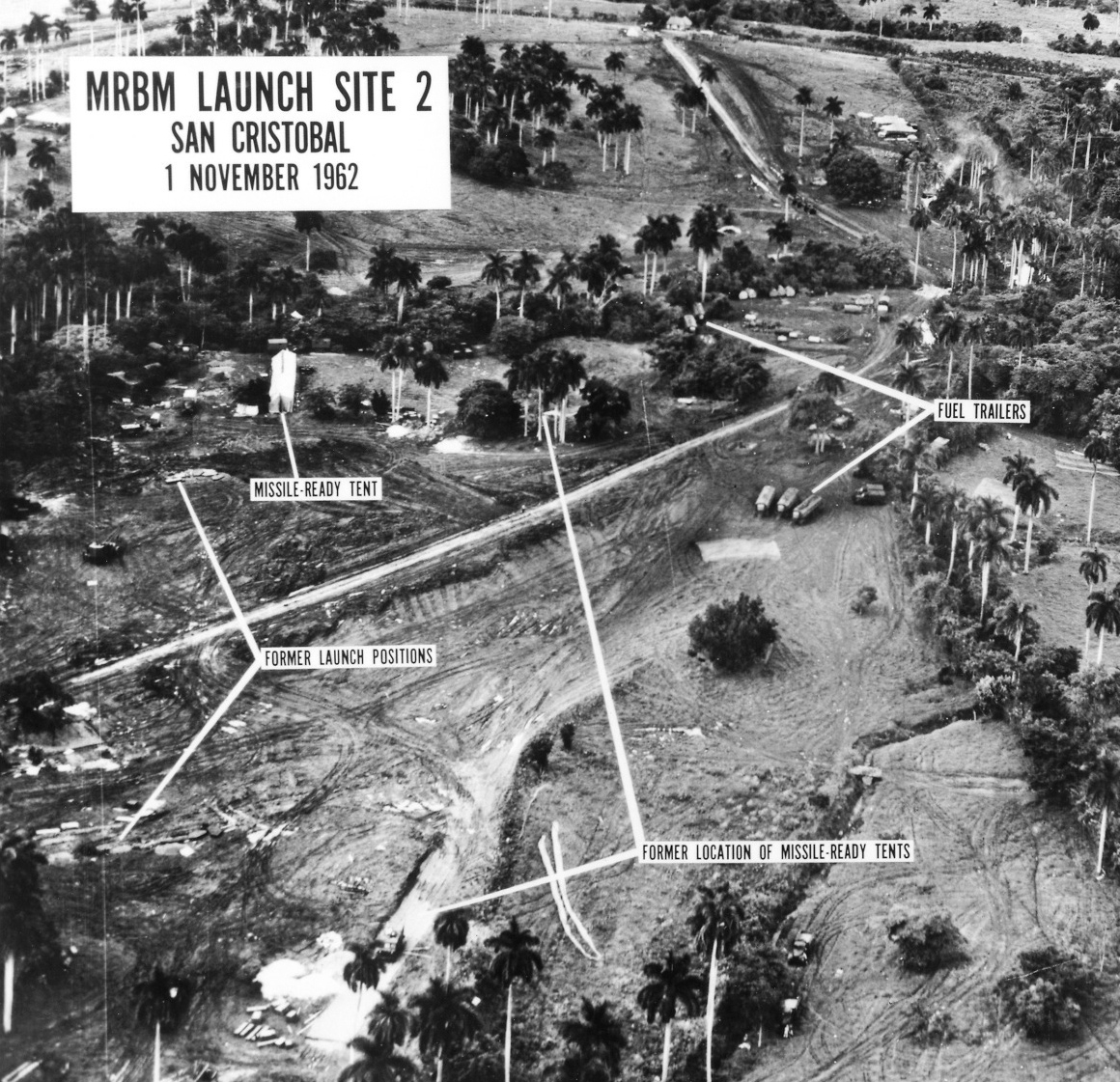 U.S. aerial reconnaissance photograph of a medium range ballistic missile launch site at San Cristobal in Cuba, on 1 November 1962 during the Cuban missile crisis.